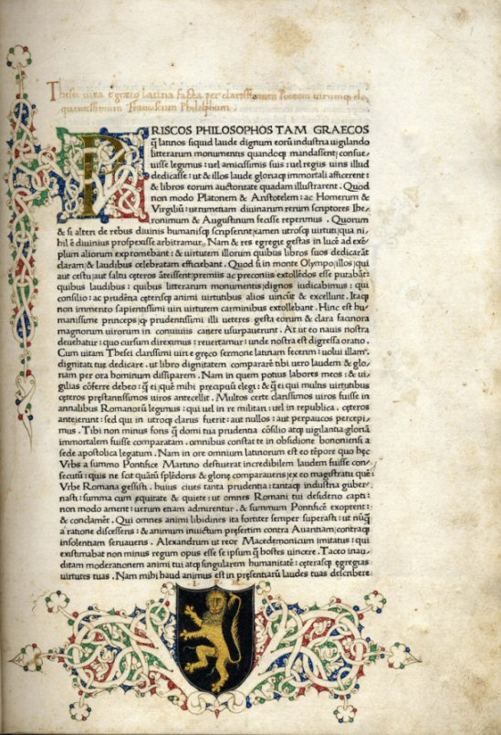 A page from: Plutarch: Vitae illustrium virorum. Rome, printed by Ulrich Han (Udalricus Gallus), 1470 Collection: University of Leeds Library